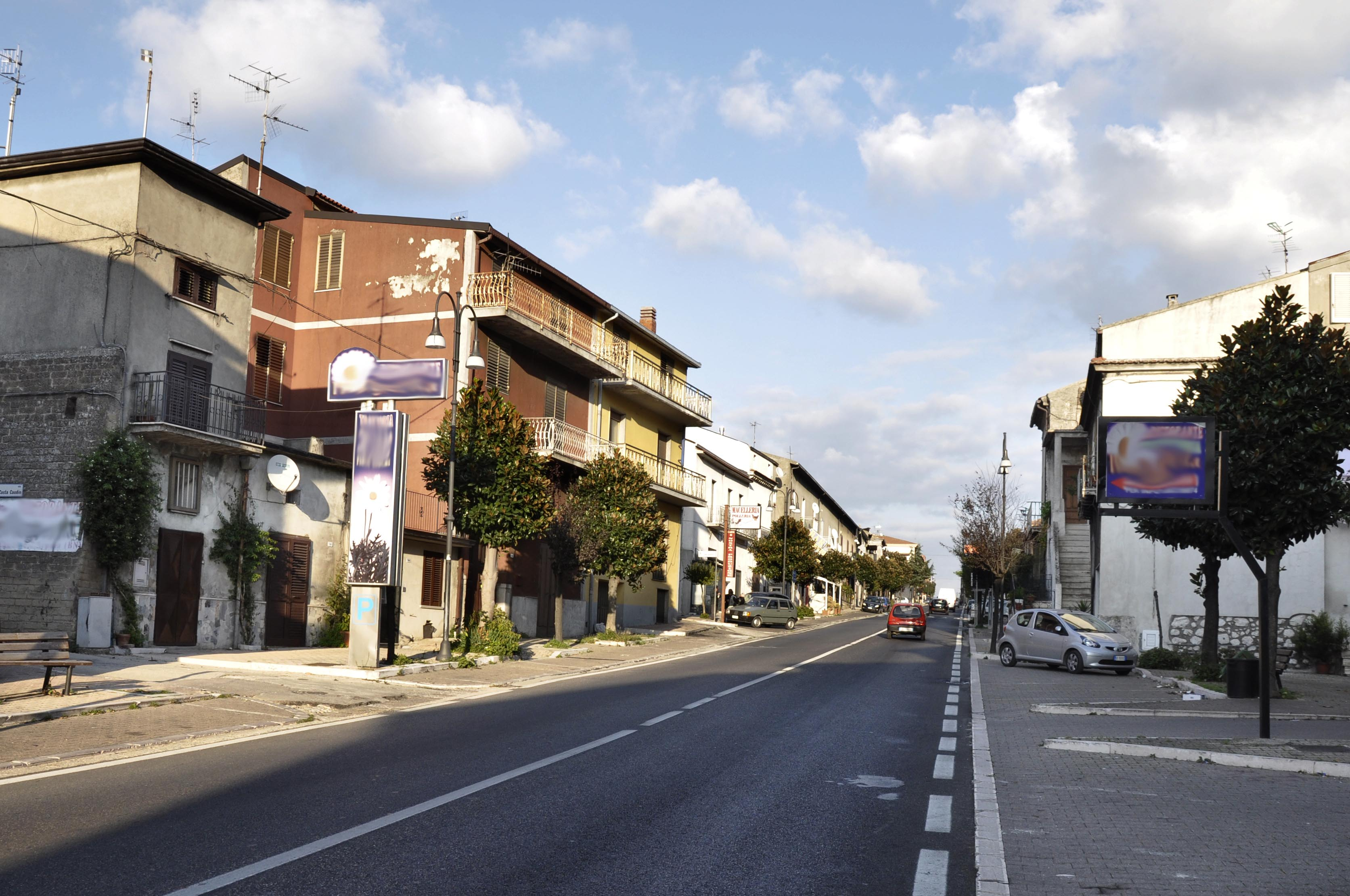 A view of the comune of Arpaia, in the province of Benevento